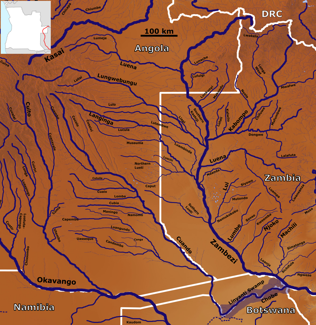 The Upper Zambezi River with its Tributaries_OSM